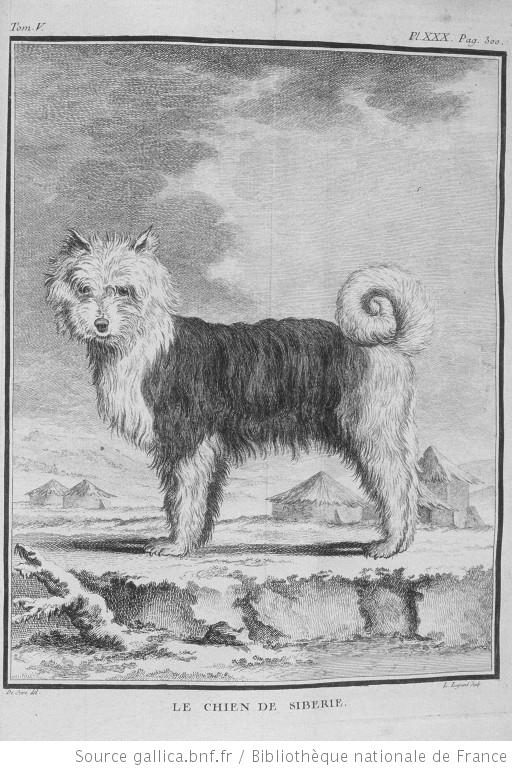 Siberian Dog